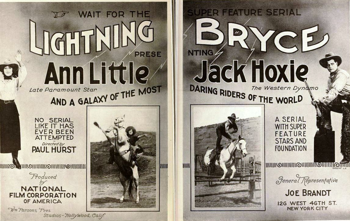 Ad for the American western film serial Lightning Bryce (1919) with Jack Hoxie and Ann Little, pages 1188 and 1189 of the August 9, 1919 Motion Picture News.